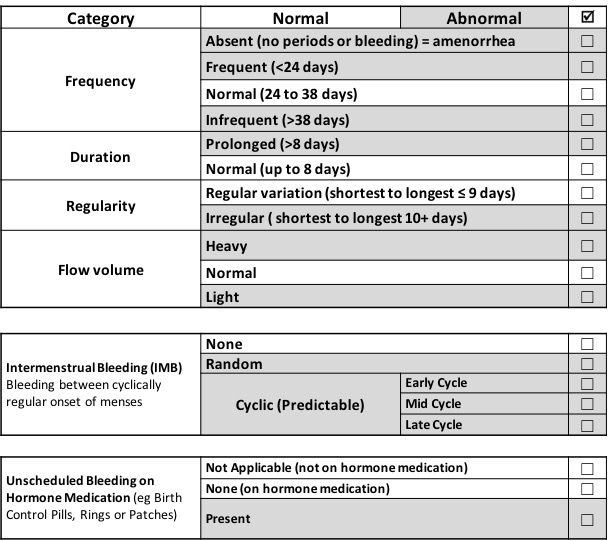 Table describing the modified FIGO system